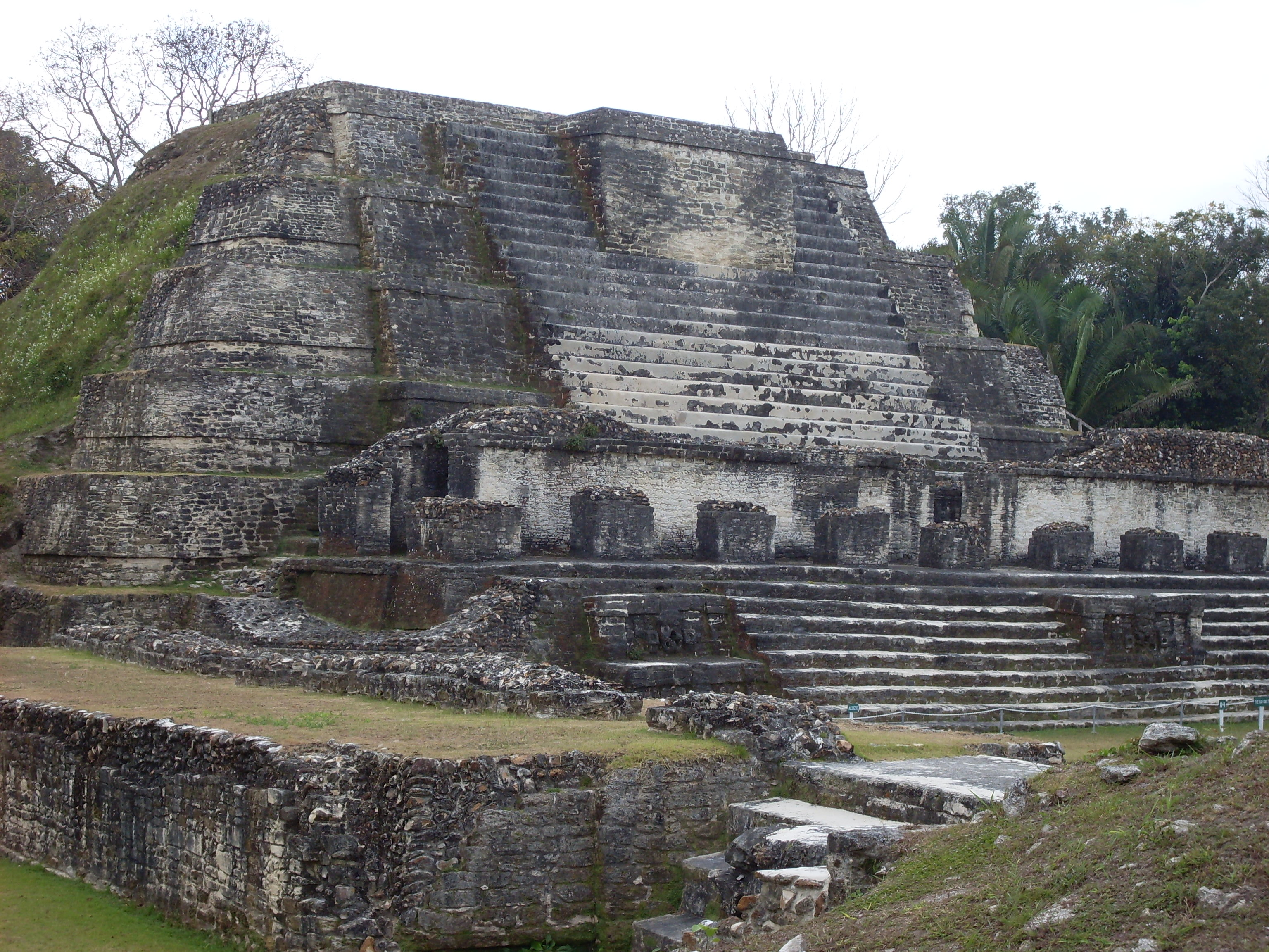 Altun Ha